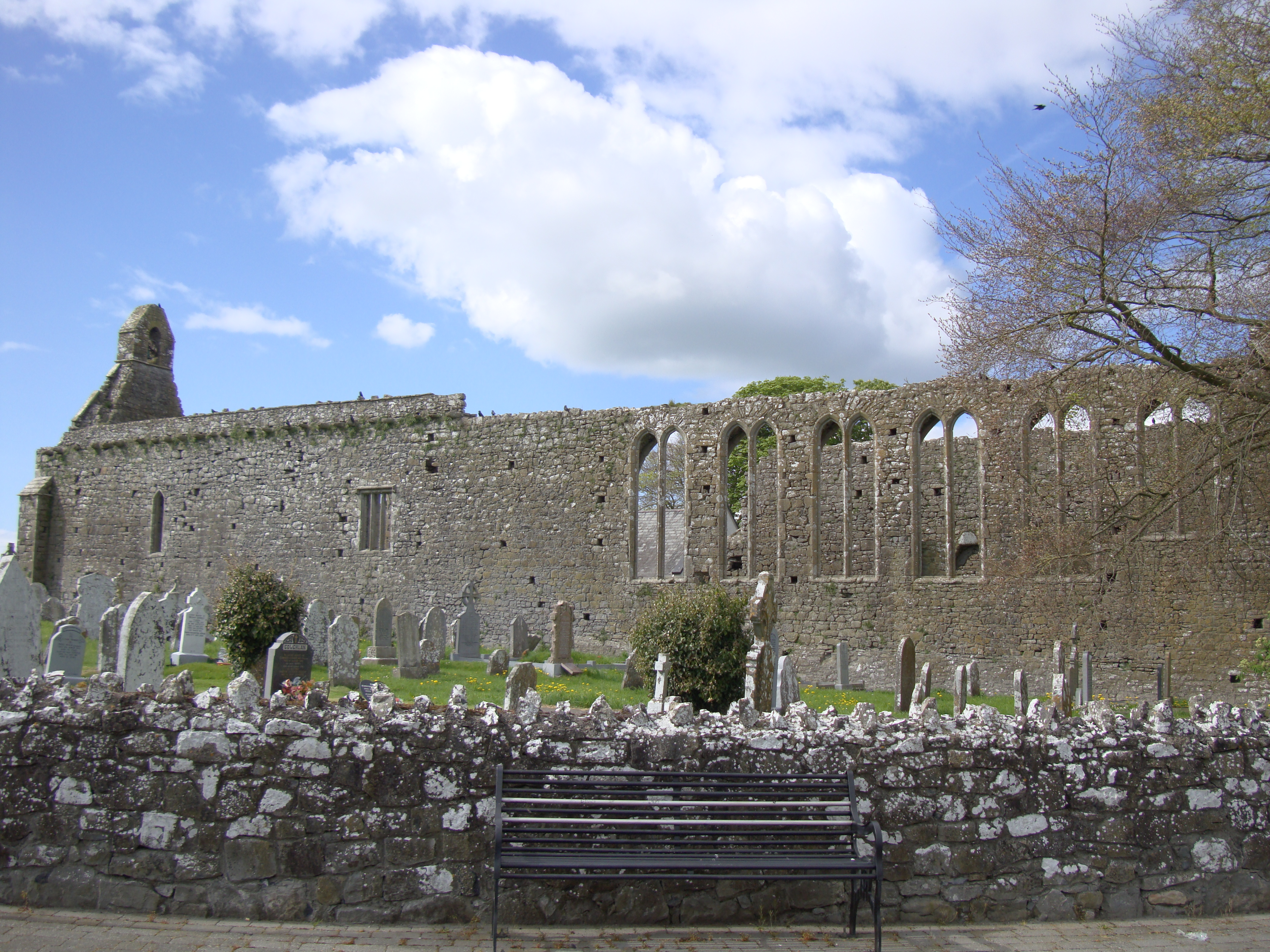 Photograph of the remains of Lorrha Friary, Co. Tipperary, Ireland